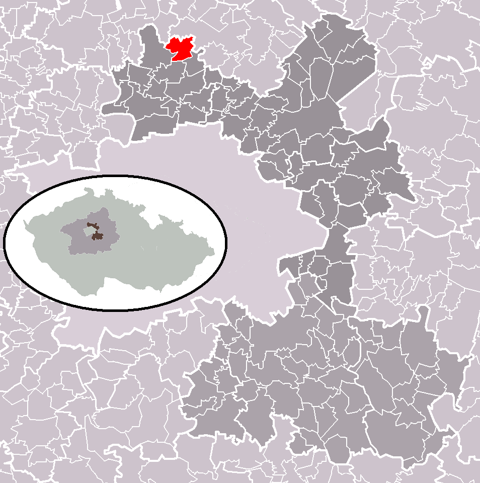 Location of Veliká Ves municipality within Prague-East District and administrative area of Brandýs nad Labem-Stará Boleslav as a Municipality with Extended Competence.